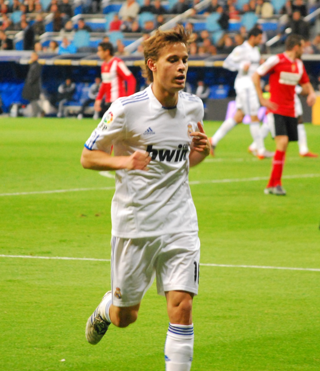 Sergio Canales, Real Madrid player